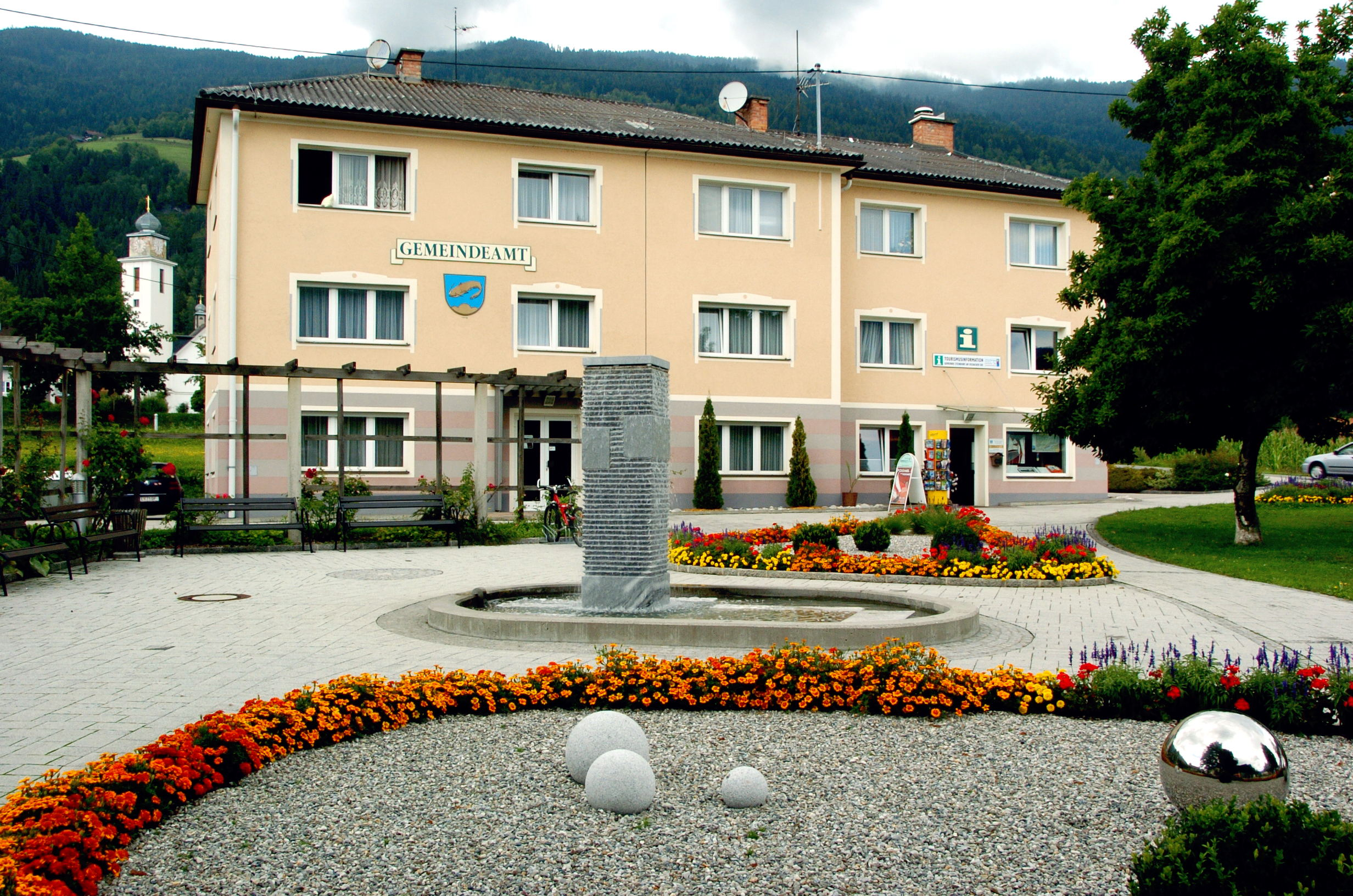 Municipal office at Bodensdorf in the community Steindorf am Ossiachersee, district Feldkirchen, Carinthia, Austria